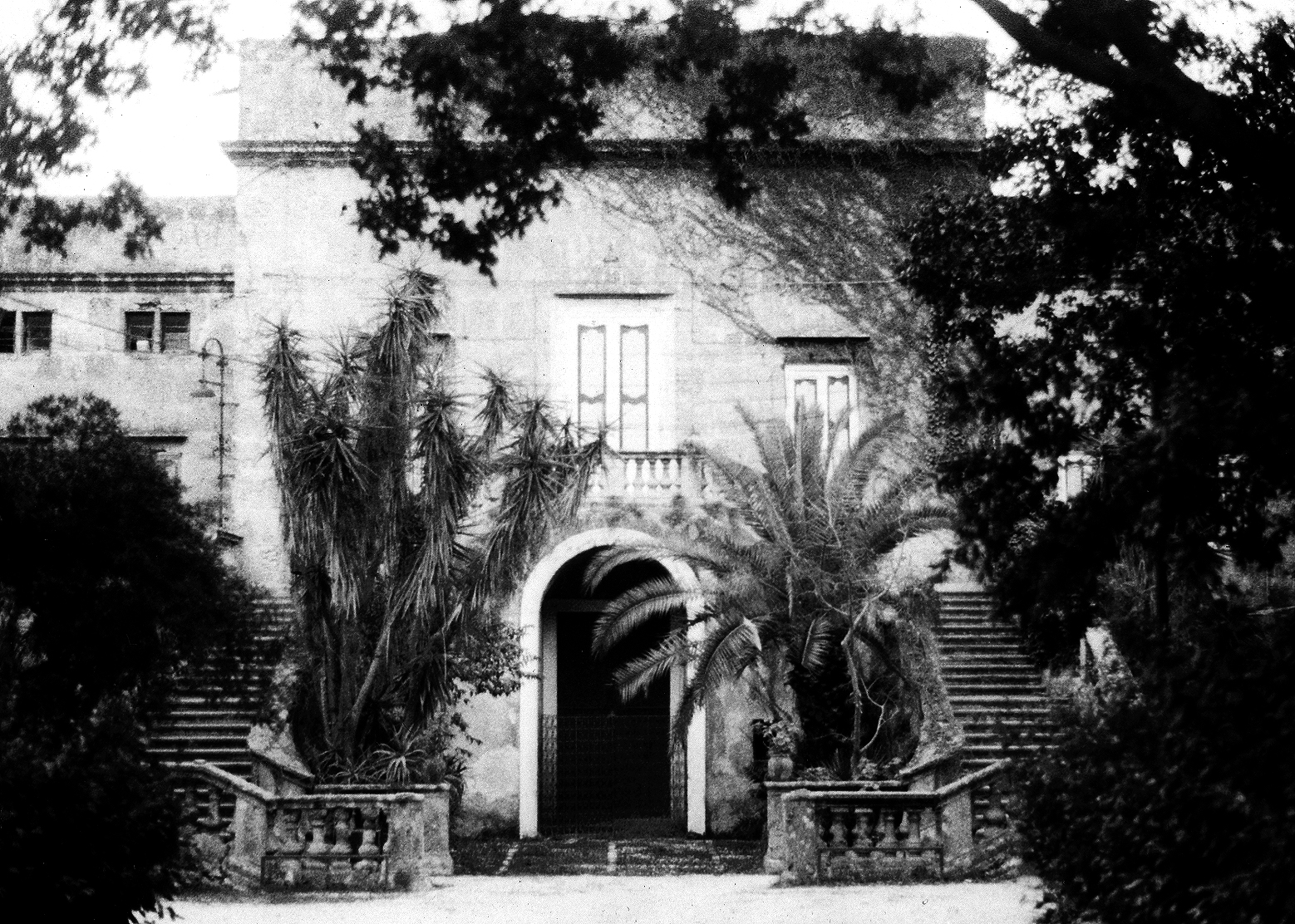 Villa Montalbo - Boscogrande was built in mid-18th century by Giovanni Maria Sammartino, duke of Montalbo. Luchino Visconti directed in this house some scenes of his film "The Leopard"